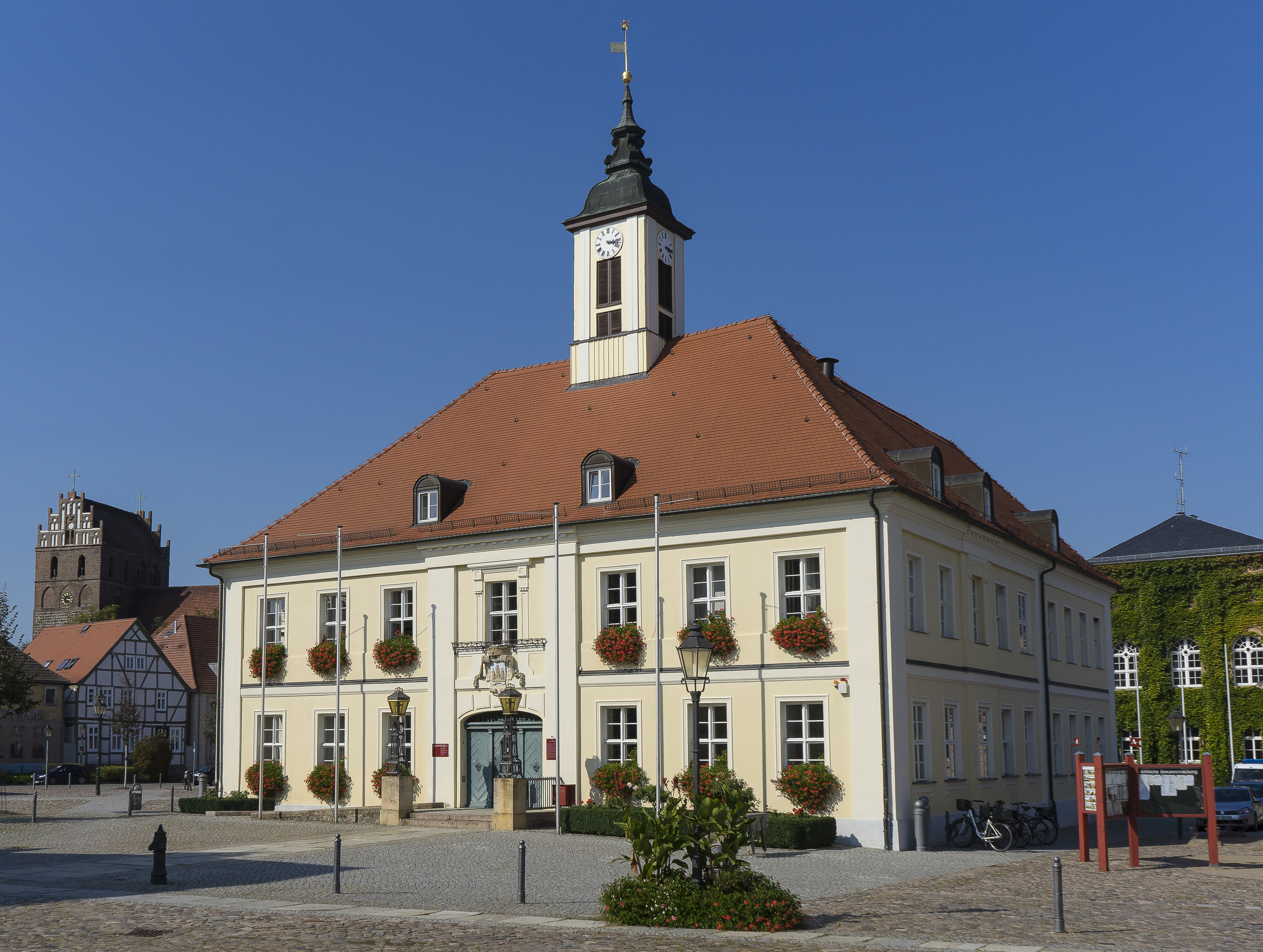 The town hall of Angermuende